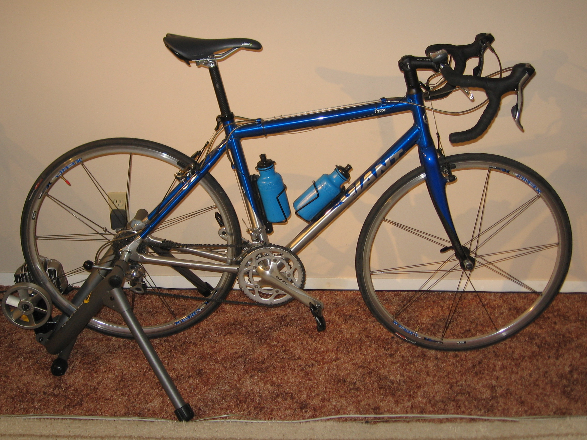 My Giant TCX Cyclocross with road tires mounted on a Cycleops Fluid2 Bike trainer